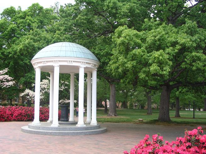 The Old Well and McCorkle Place at the University of North Carolina at Chapel Hill.